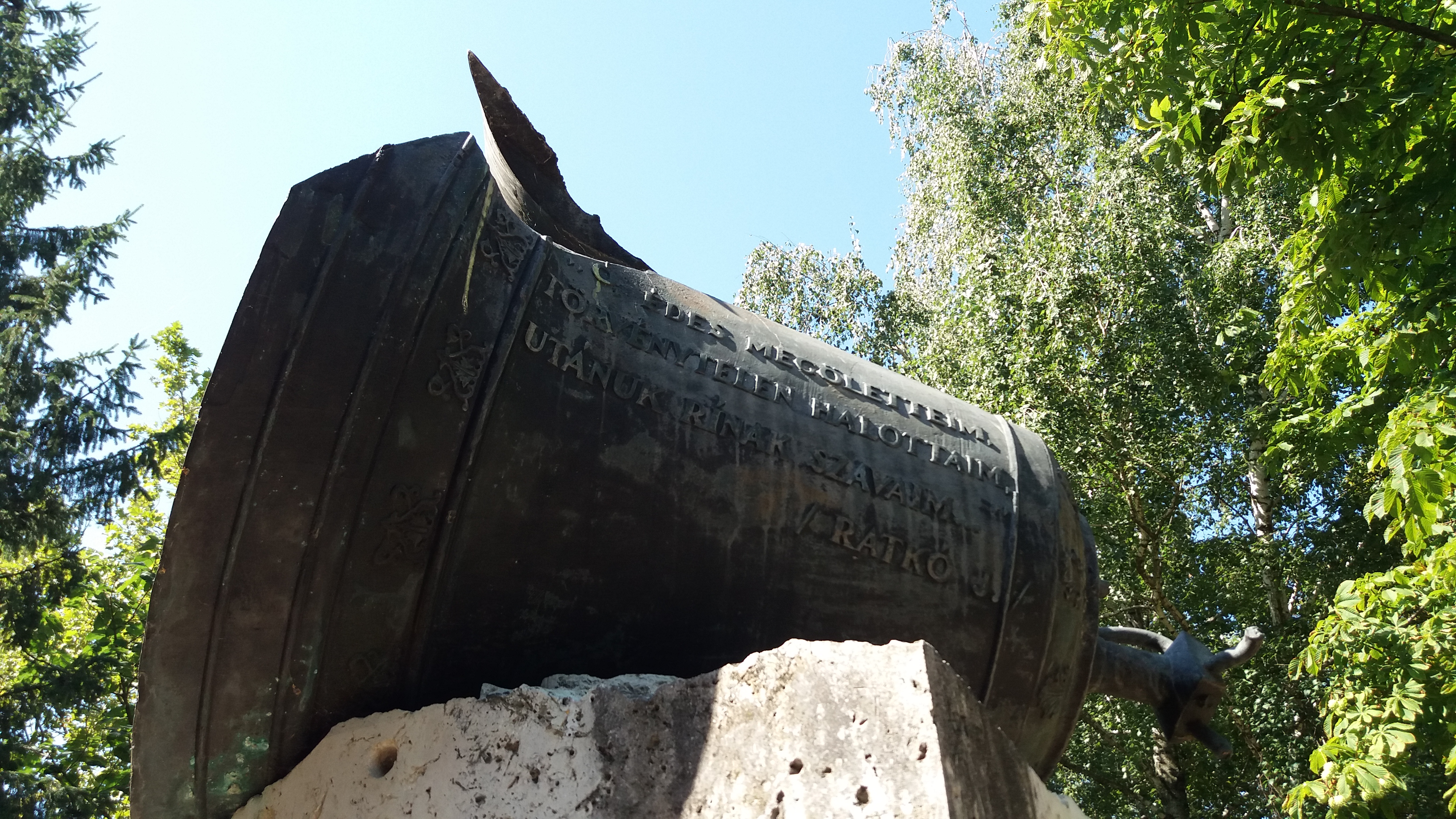 memorial